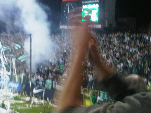 Ferencváros-Újpest, 11 April, 2011: 1:0